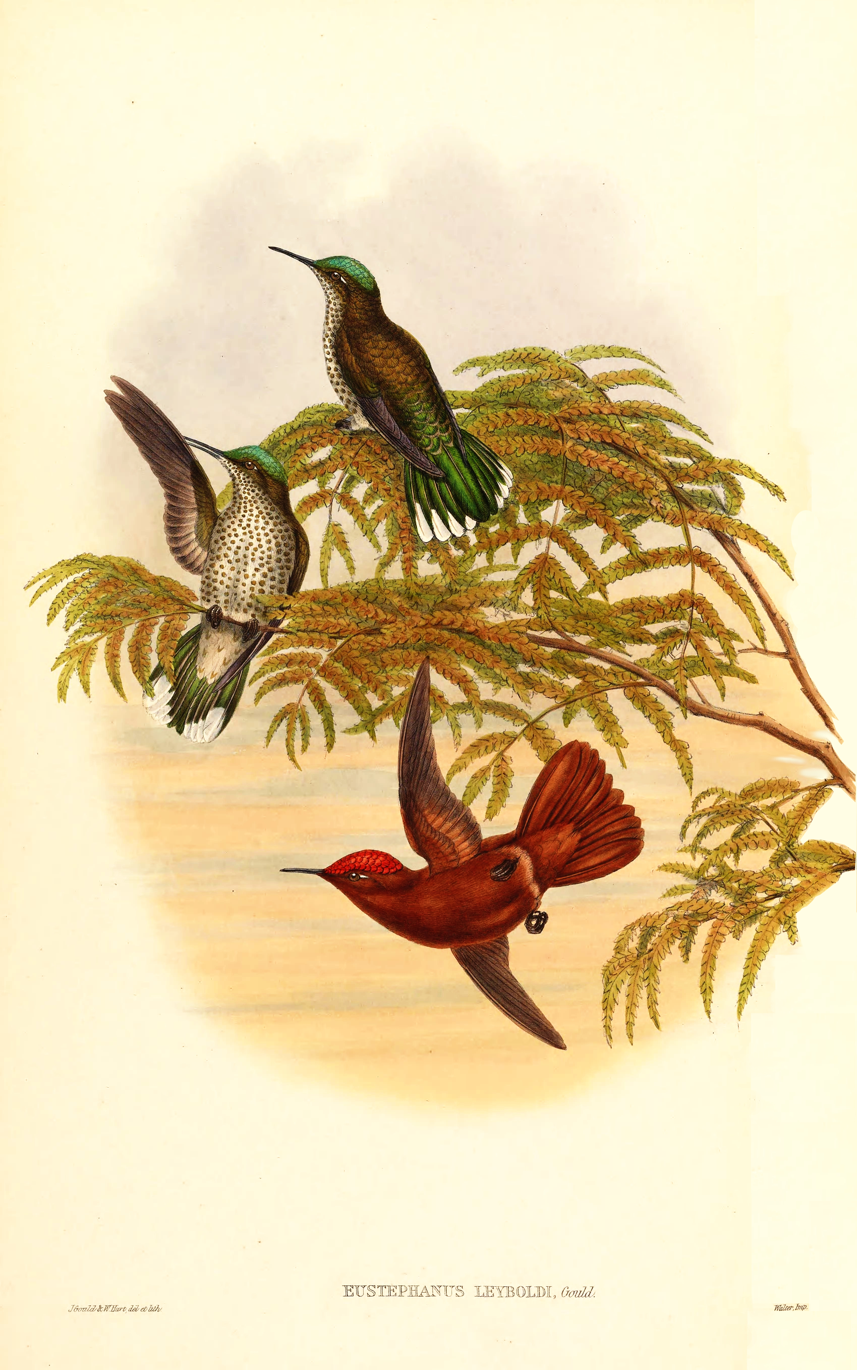 Leybold's Fire-crown (Eustephanus Leyboldi) which is now a synonym of the Sephanoides fernandensis leyboldi. From Gould's 'A Monograph of the Trochilidae or Family of Hummingbirds', Supplement (1880-87) Hart after Gould.